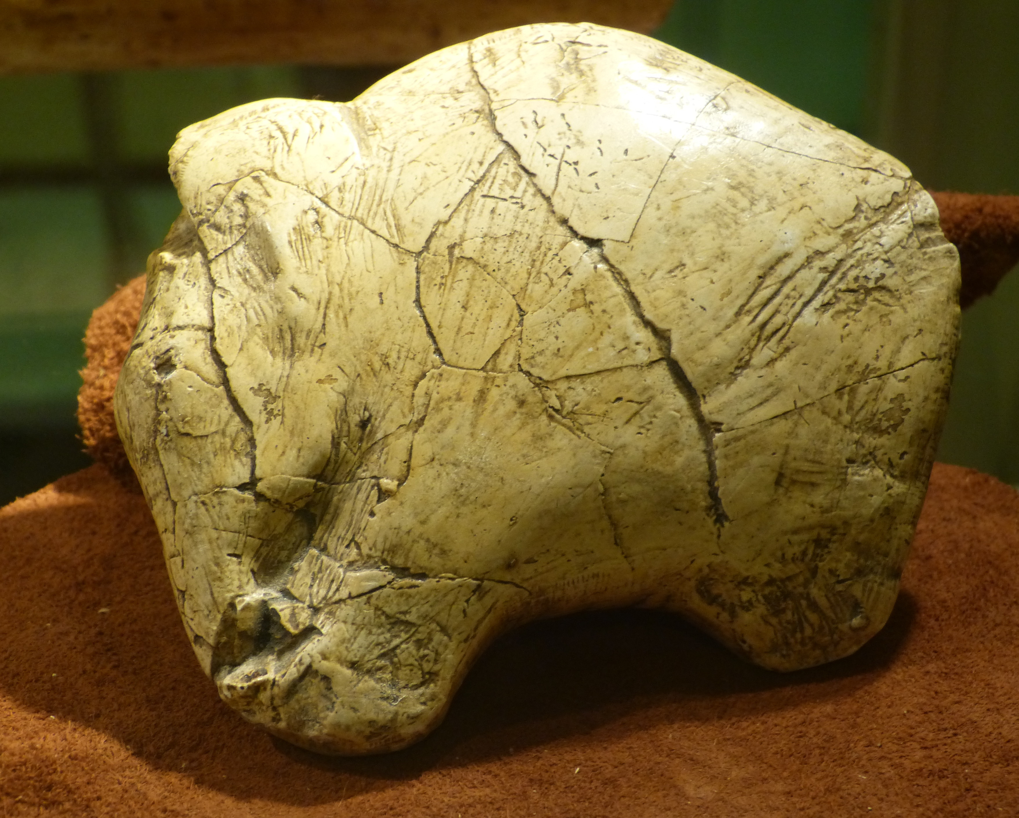 Eggenburg ( Lower Austria ). Krahuletz-Museum: Ca. 26,000 year old Paleolithic ivory carving of a mammoth (replica), from Predmosti, Czech Republic.